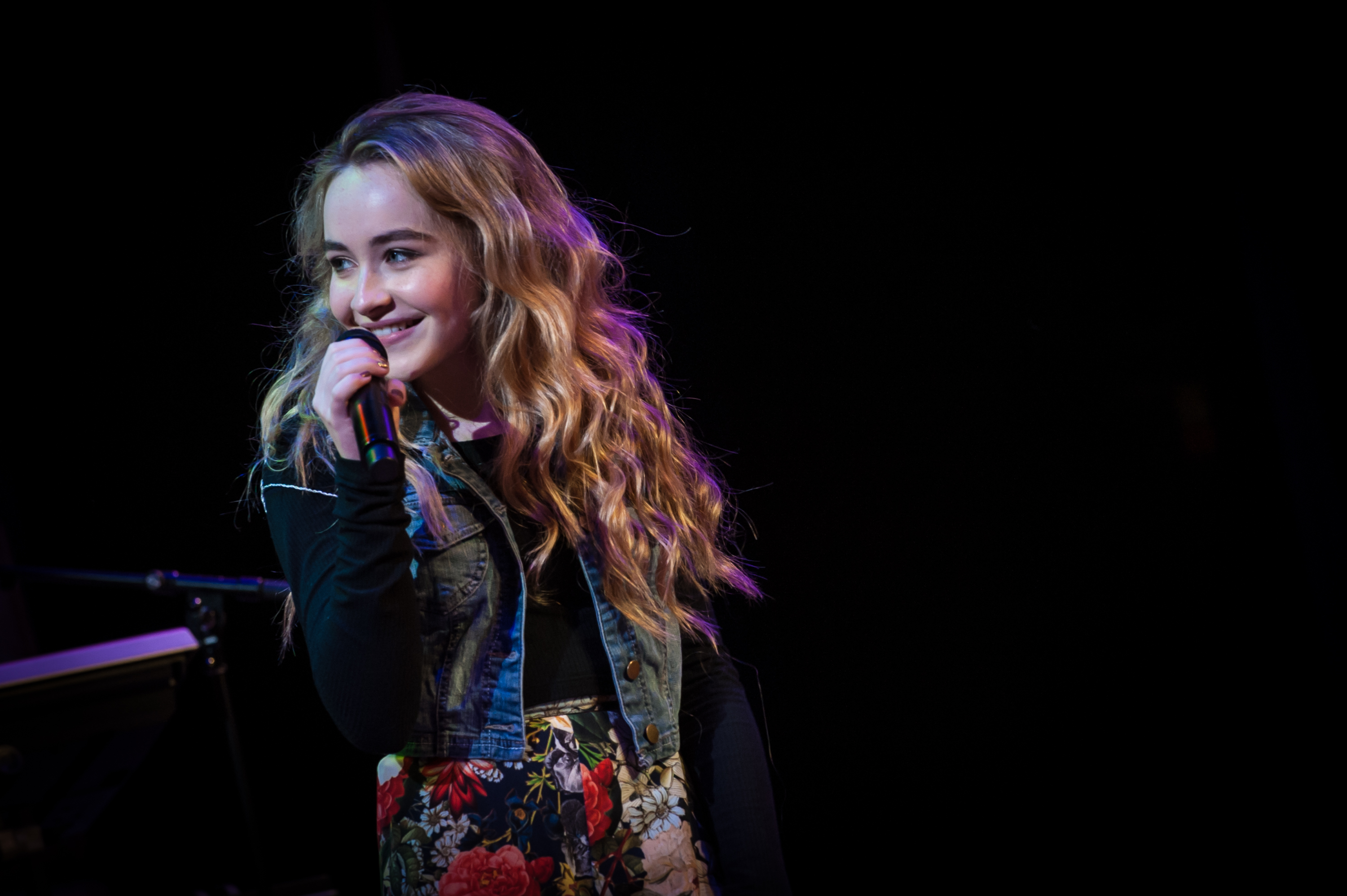 Sabrina Carpenter - Disney Social Media Moms Conference - Disney Junior Morning